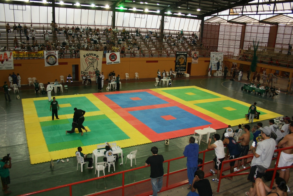 Interclub Championship Brazilian Jiu-Jitsu in the city of Ipatinga, MG, 2009.